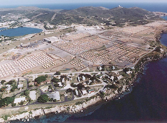 Original caption: "Gitmo airfield converted for 10,000 migrants"